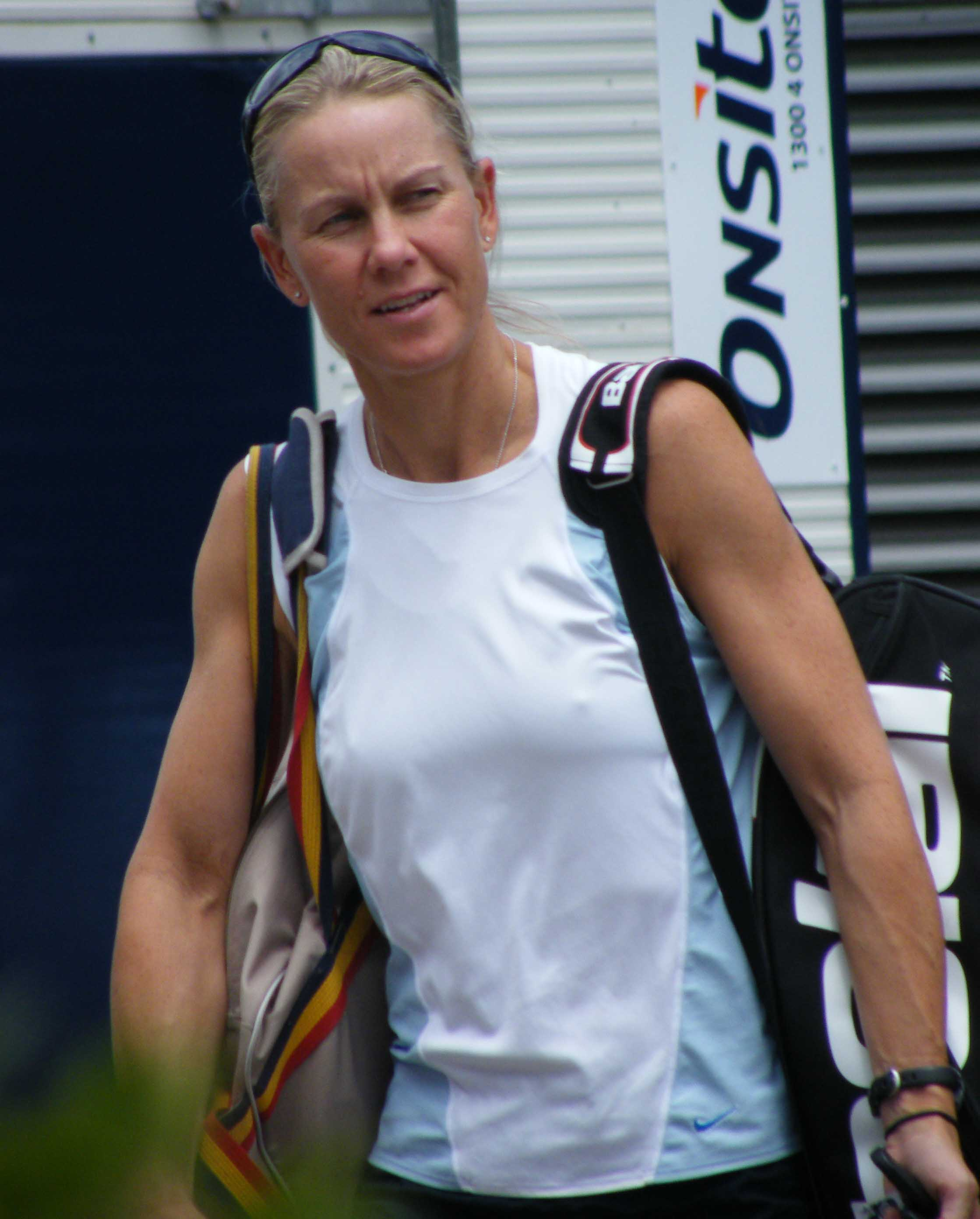 Rennae Stubbs of Australia - NSW Tennis Open, January 2009.